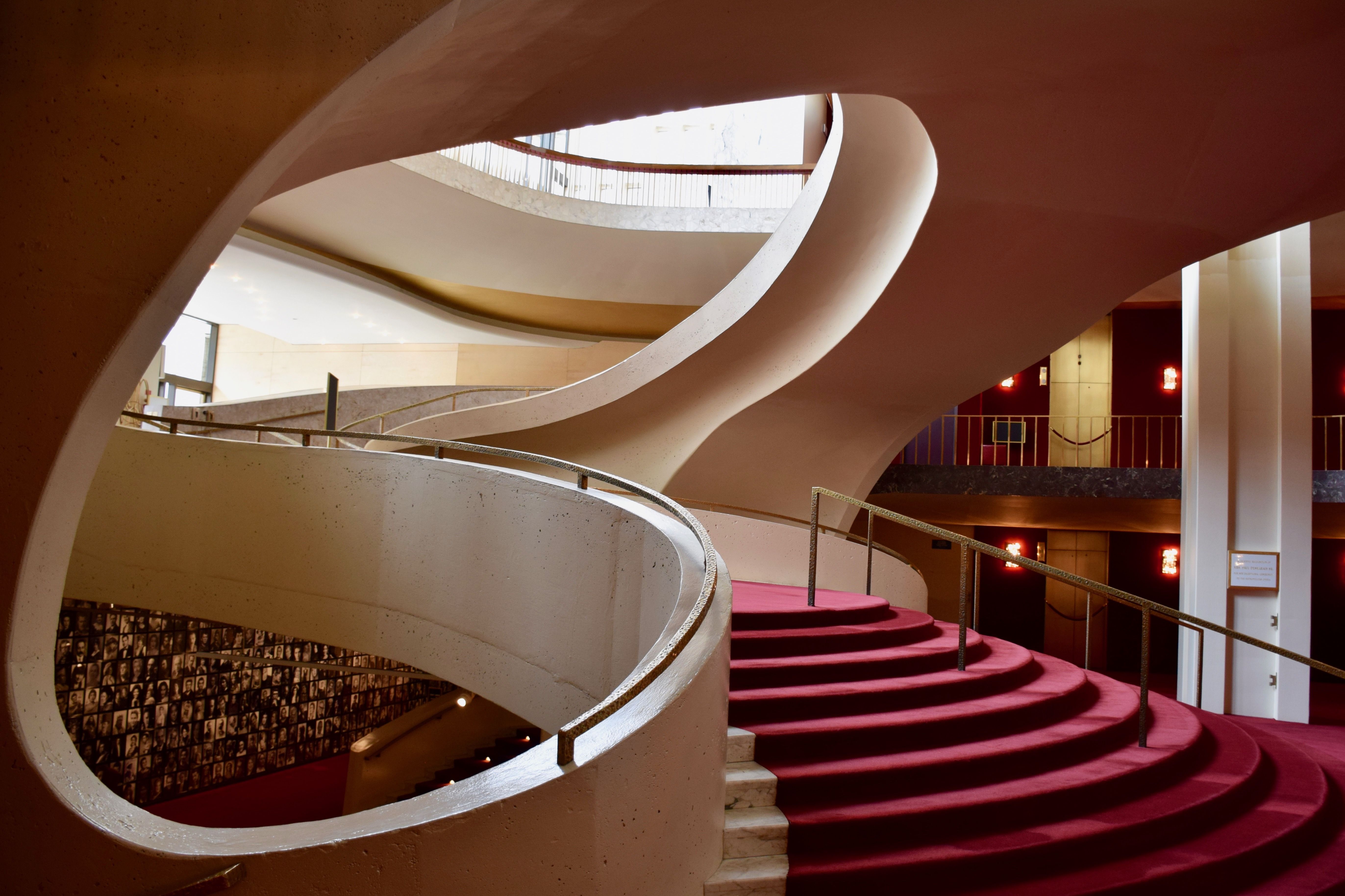 Staircase at the Met Opera House from the Lincoln Center tour.Site: Met Opera House (Lincoln Center Tour)